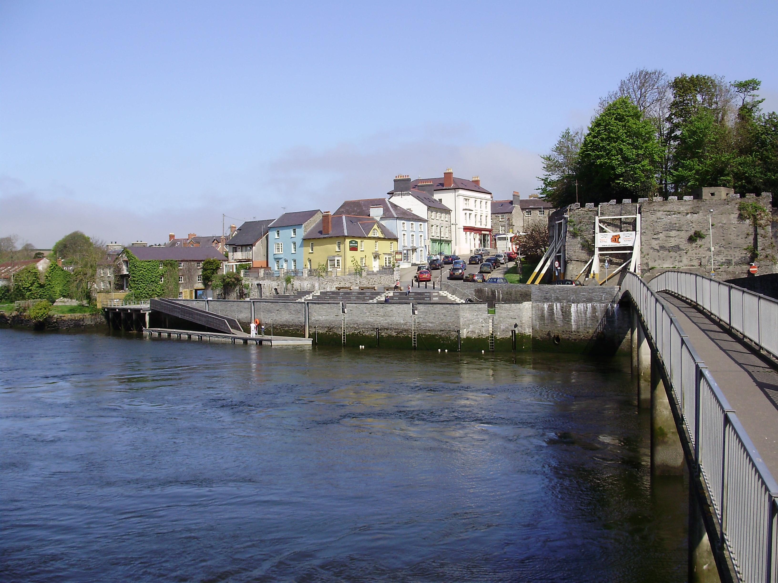 View of Cardigan from across the River Teifi, looking north. To the right is Cardigan Castle, to the left is the beginning of the high street.